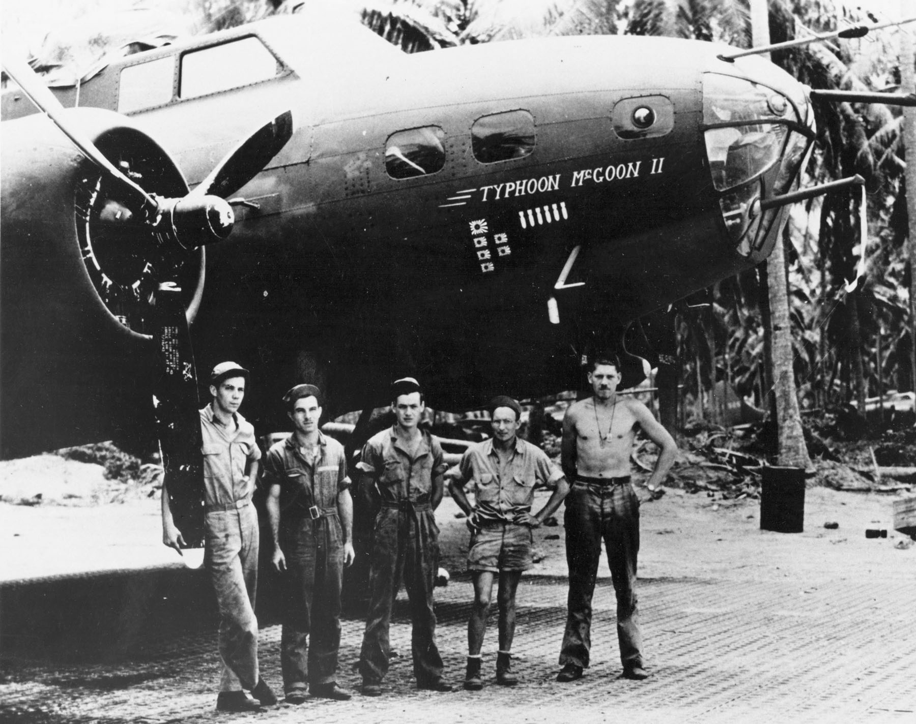 Nose detail of Boeing B-17E "Typhoon McGoon II" (S/N 41-9211) of the 11th Bomb Group, 98th Bomb Squadron, taken in January 1943 in New Caledonia. Note the antennas mounted above the nose plexiglass used for radar tracking of surface vessels.